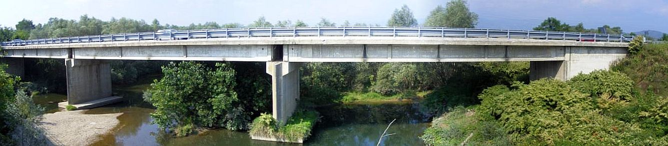 National road's n.26 bridge on Chiusella creek (Romano Canavese, TO, Italy)